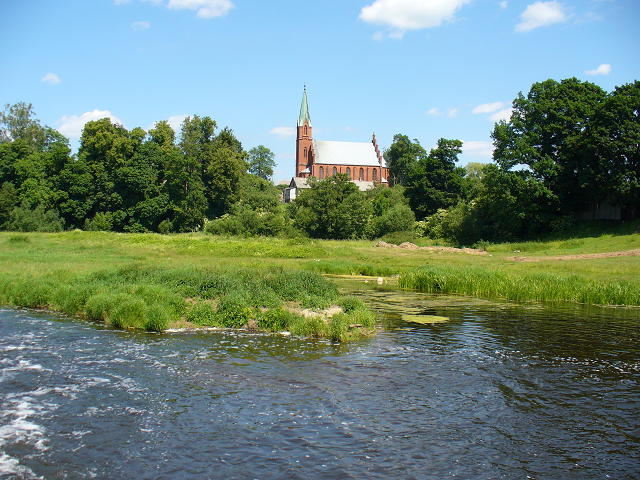 Church and Šešupė River at Krasnoznamensk (former Lasdehnen), Kaliningrad oblast. Photo: N. Ahting (User: Ballupoenen), June, 2006